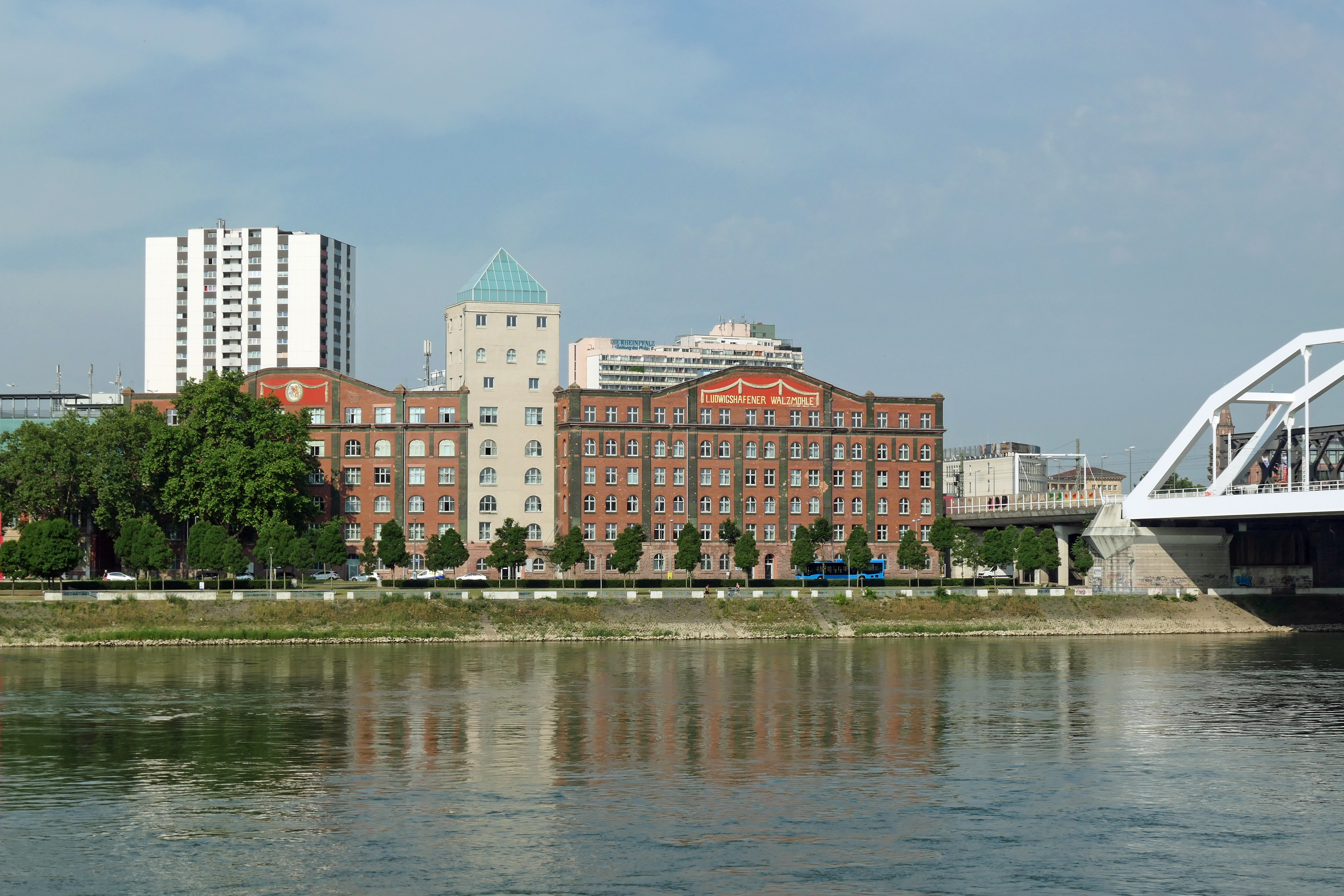 Walzmühle Ludwigshafen, picture taken from the opposite side of the Rhine (Mannheim)